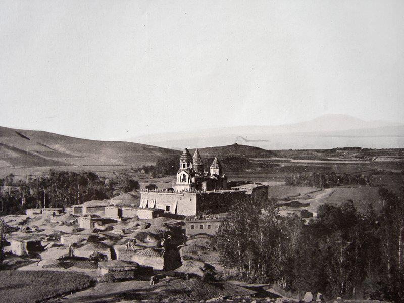 The 10th century Armenian monastery of Narekavank (now destroyed), Lake Van, Vaspurakan (modern Turkey).